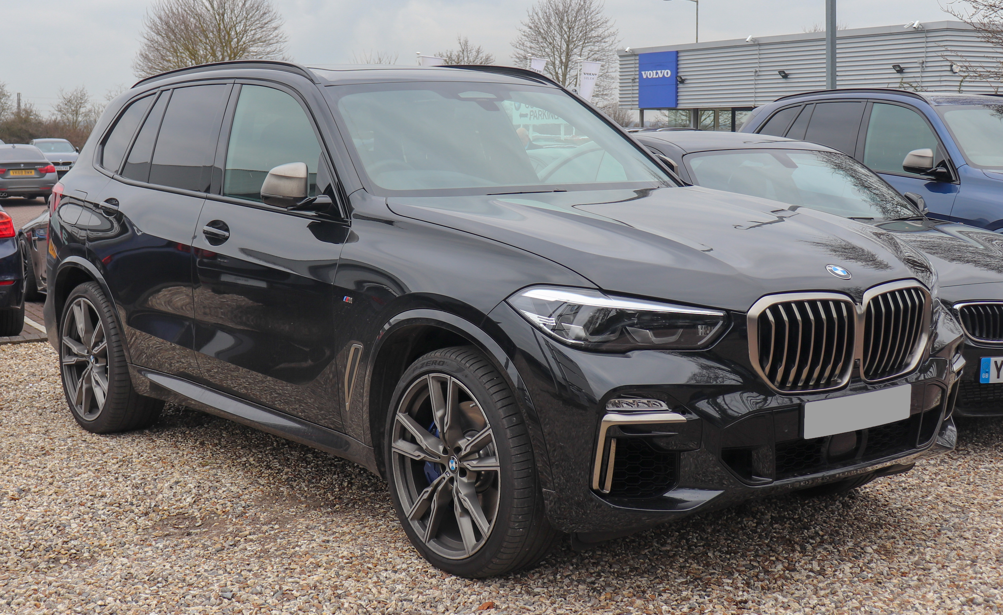 2019 BMW X5 M50d Automatic 3.0 Front Taken in Leamington Spa